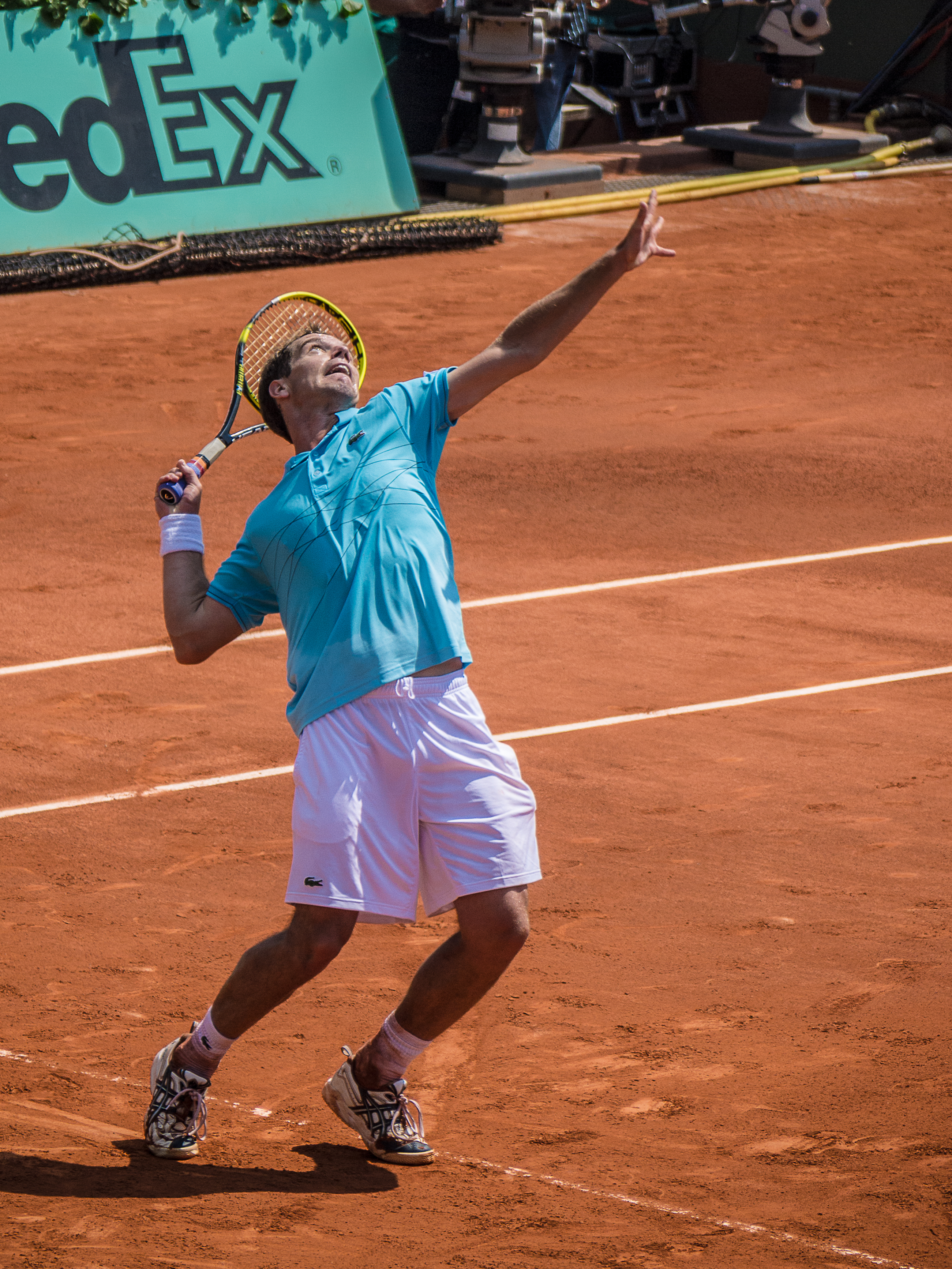 First round Roland Garros 2012: Richard Gasquet (FRA) def. Jurgen Zopp (EST)